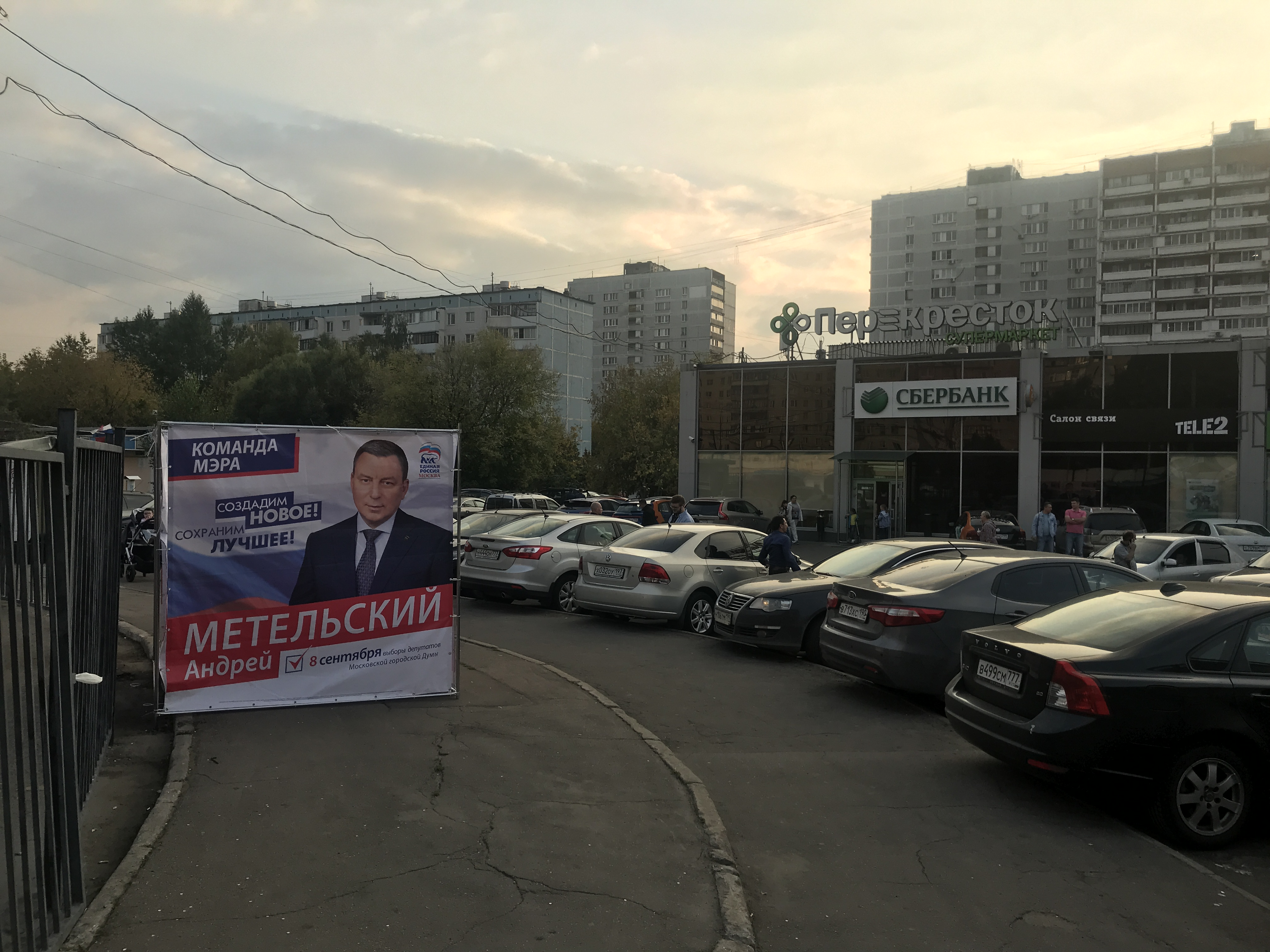 Single-member constituency No. 15 at the election of deputies to the Moscow City Duma of the 7th convocation